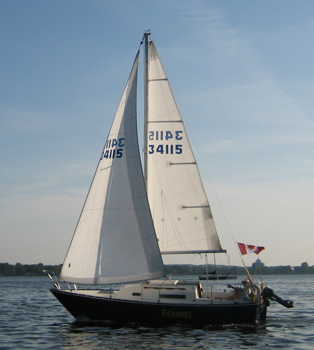 C&C 24 sailboat Fennel on Lac Deschênes, part of the Ottawa River, Ottawa, Ontario, Canada